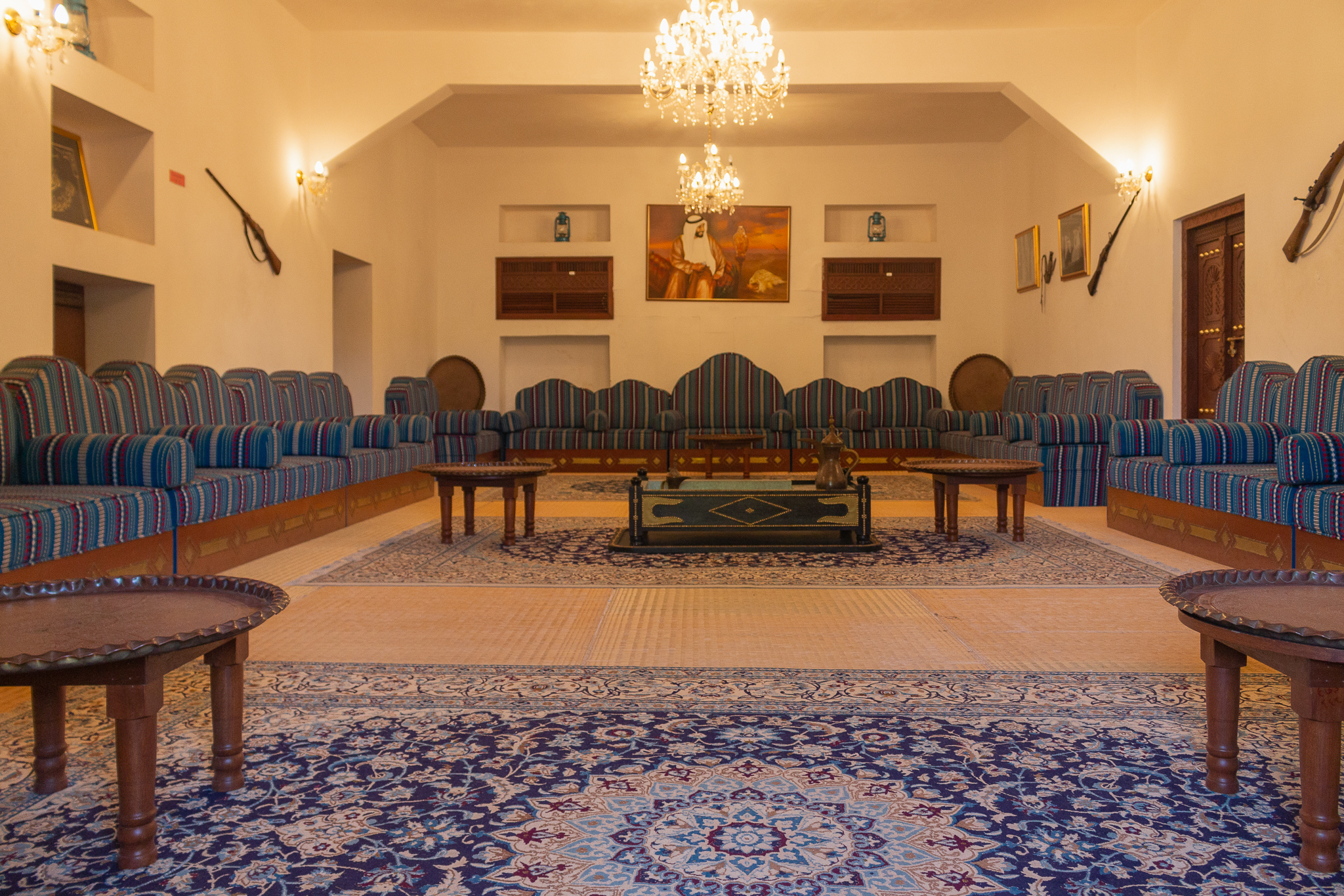 One of the many majlis inside the palace. This is a place where the ruler or his representatives met with the commoners This is a monument in the United Arab Emirates identified by the ID AA-7